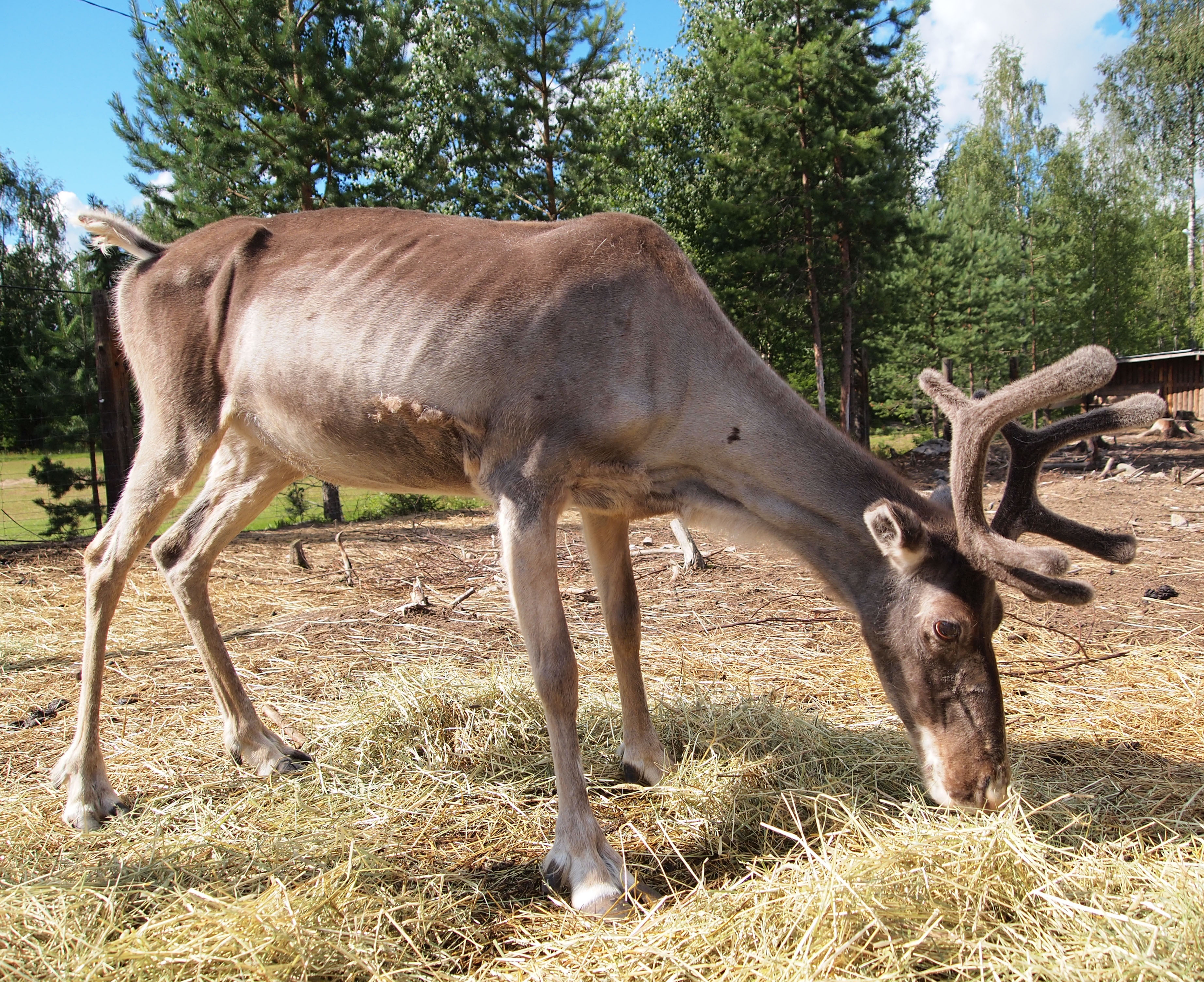 Reindeer in Ysitien Lemmikki Zoo, Jyväskylä.